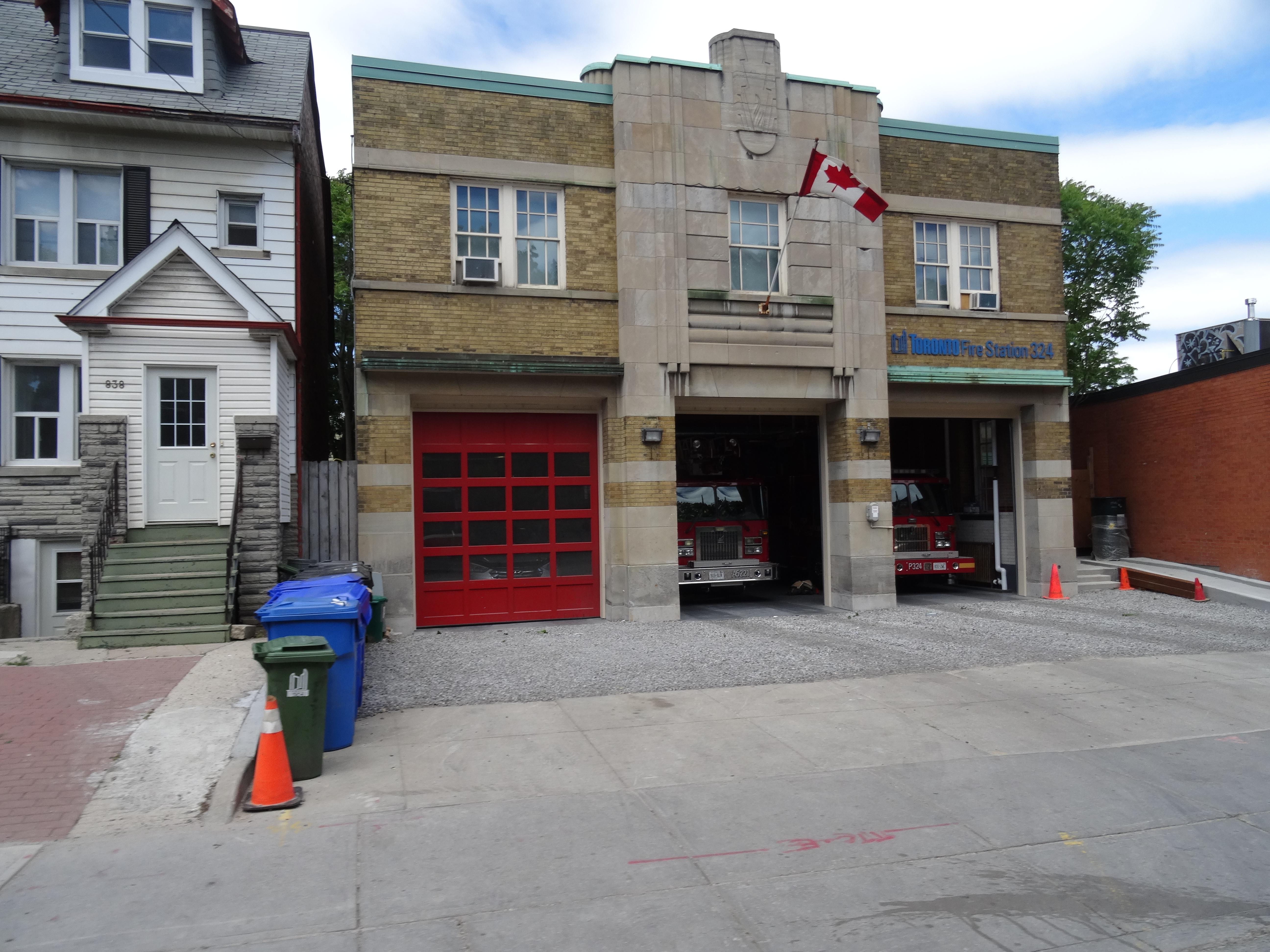 pictures taken from the window of a TTC route 506 streetcar, 2016 06 12 (181).JPG